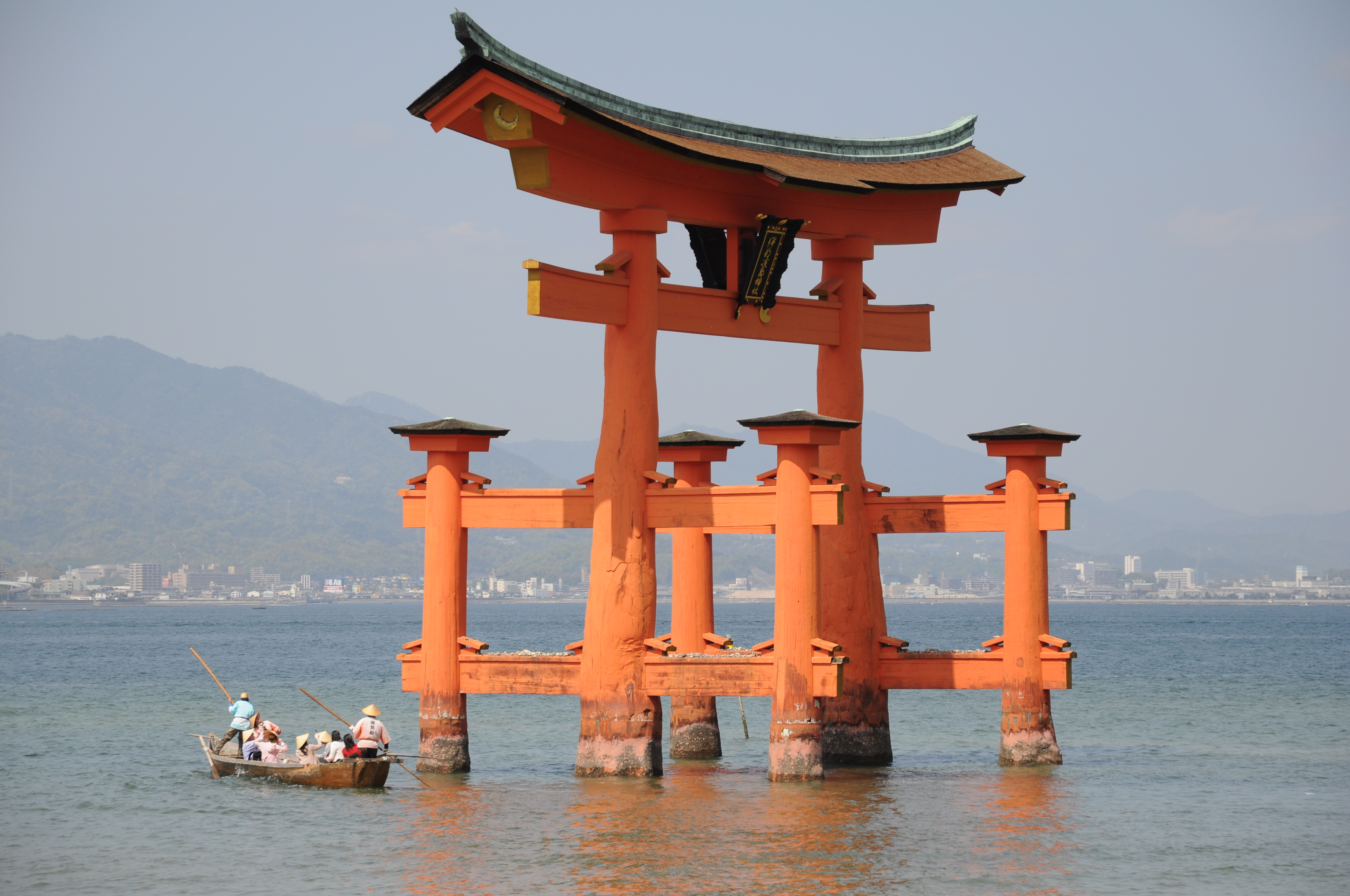 Torii at Itsukushima Shrine, Miyajima, Hiroshima Prefecture, Japan, with a visiting boat.